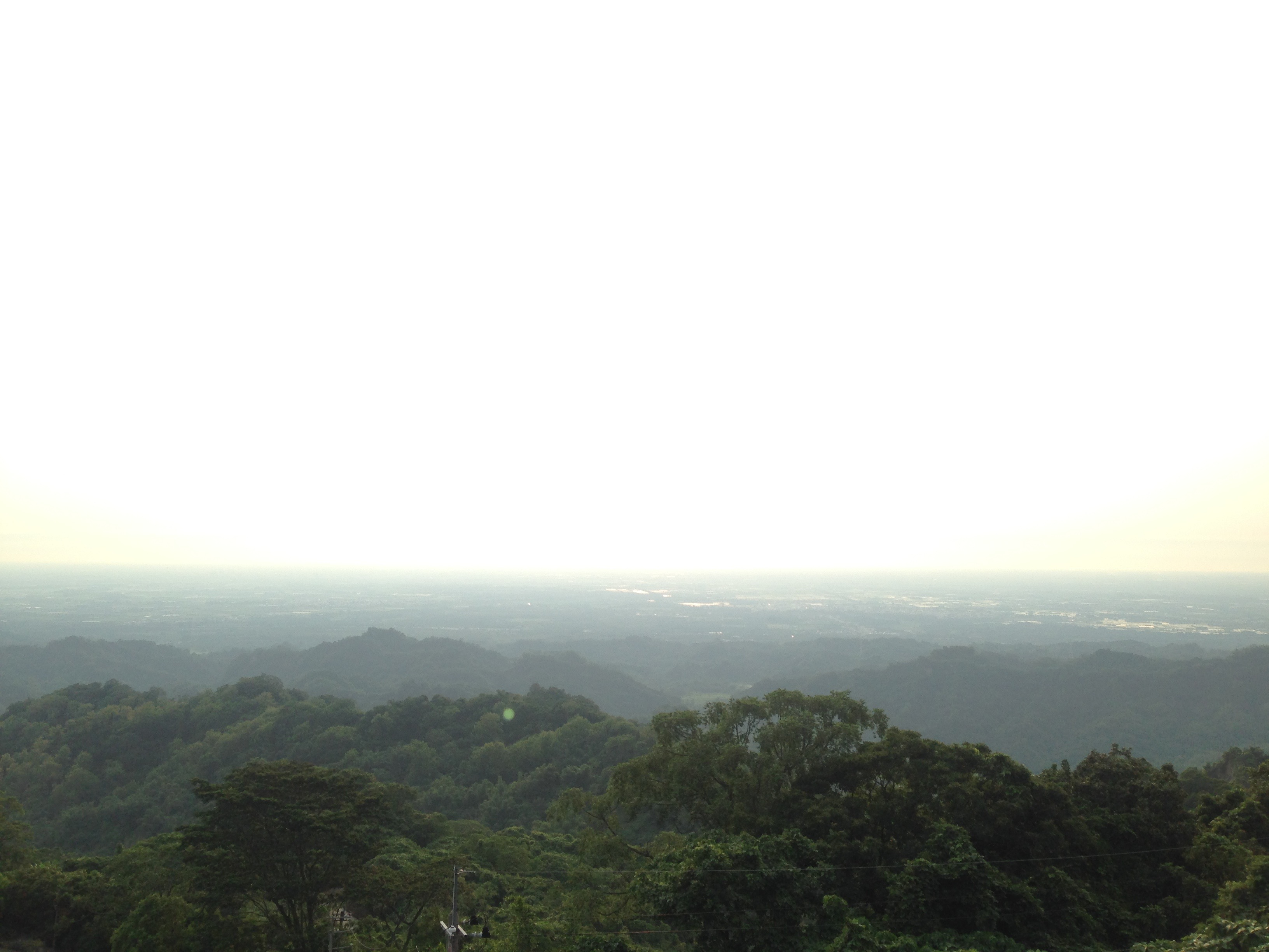 Overlook of Liuchongxi, a Taivoan community.